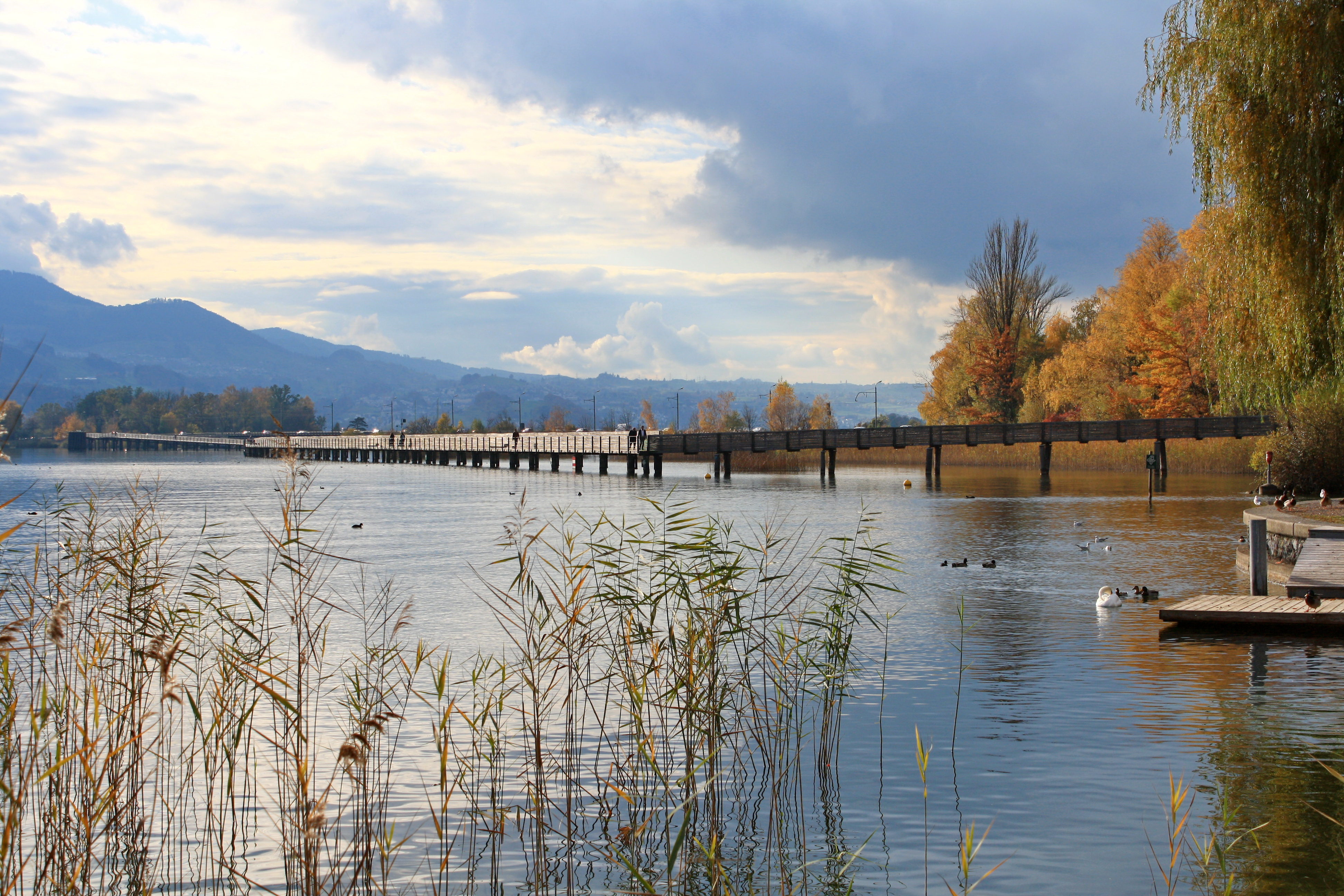 Pilgersteg (Pilgrim's bridge) Rapperswil-Hurden, crossing Obersee (upper Lake Zurich), as seen from Heilig Hüsli in Rapperswil (SG), Hurden in the background (to the right).